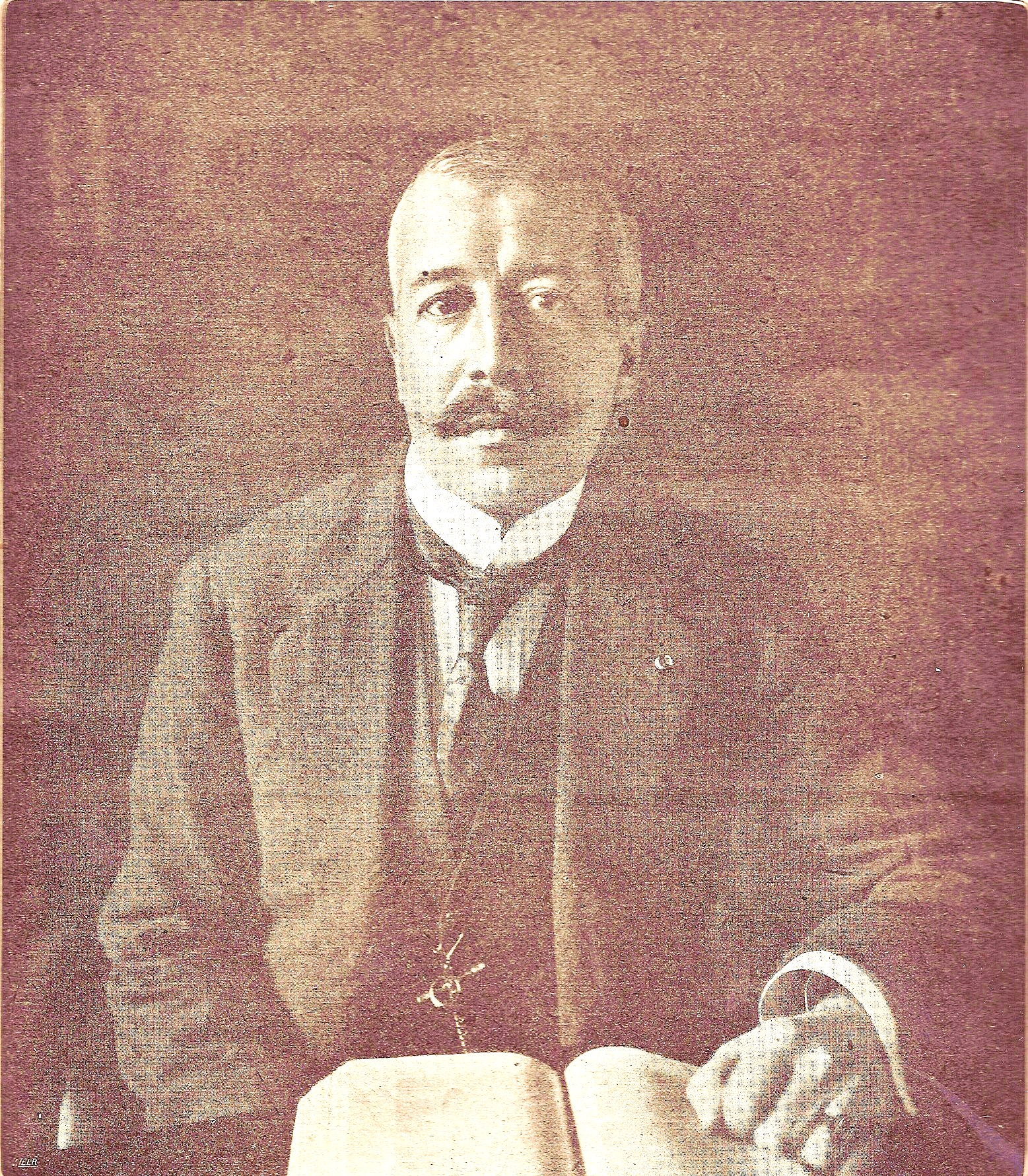 L.J. PLemp van Duiveland